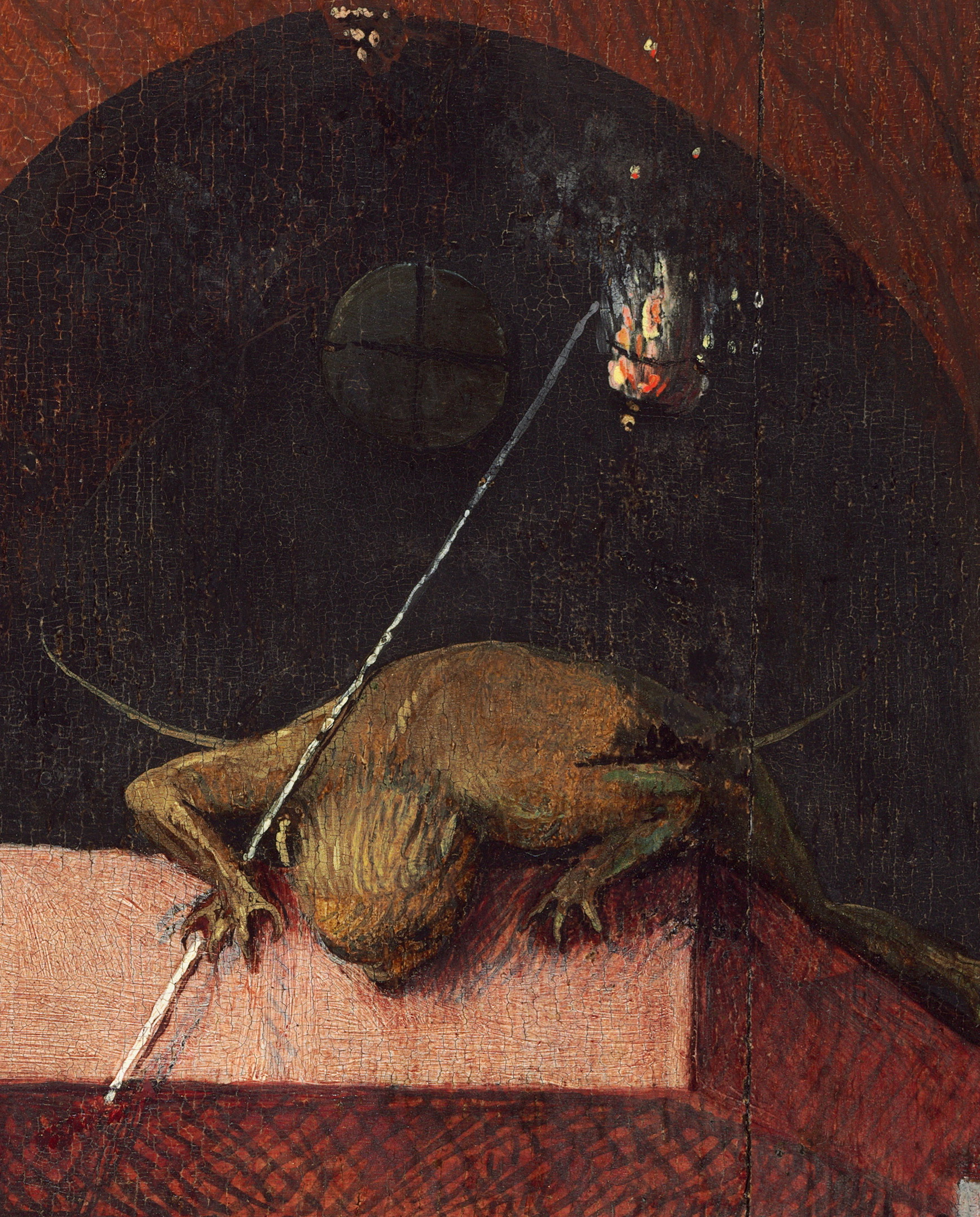 Death and the Usurer [detail].